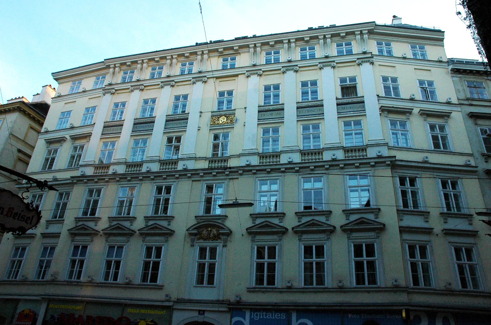 Tenement in the 1st district of Vienna Fleischmarkt 18